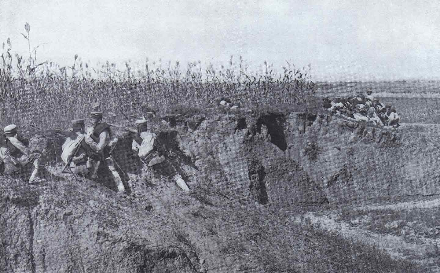 Japanese Infantry Preparing the Attack during the Siege of Port Arther.